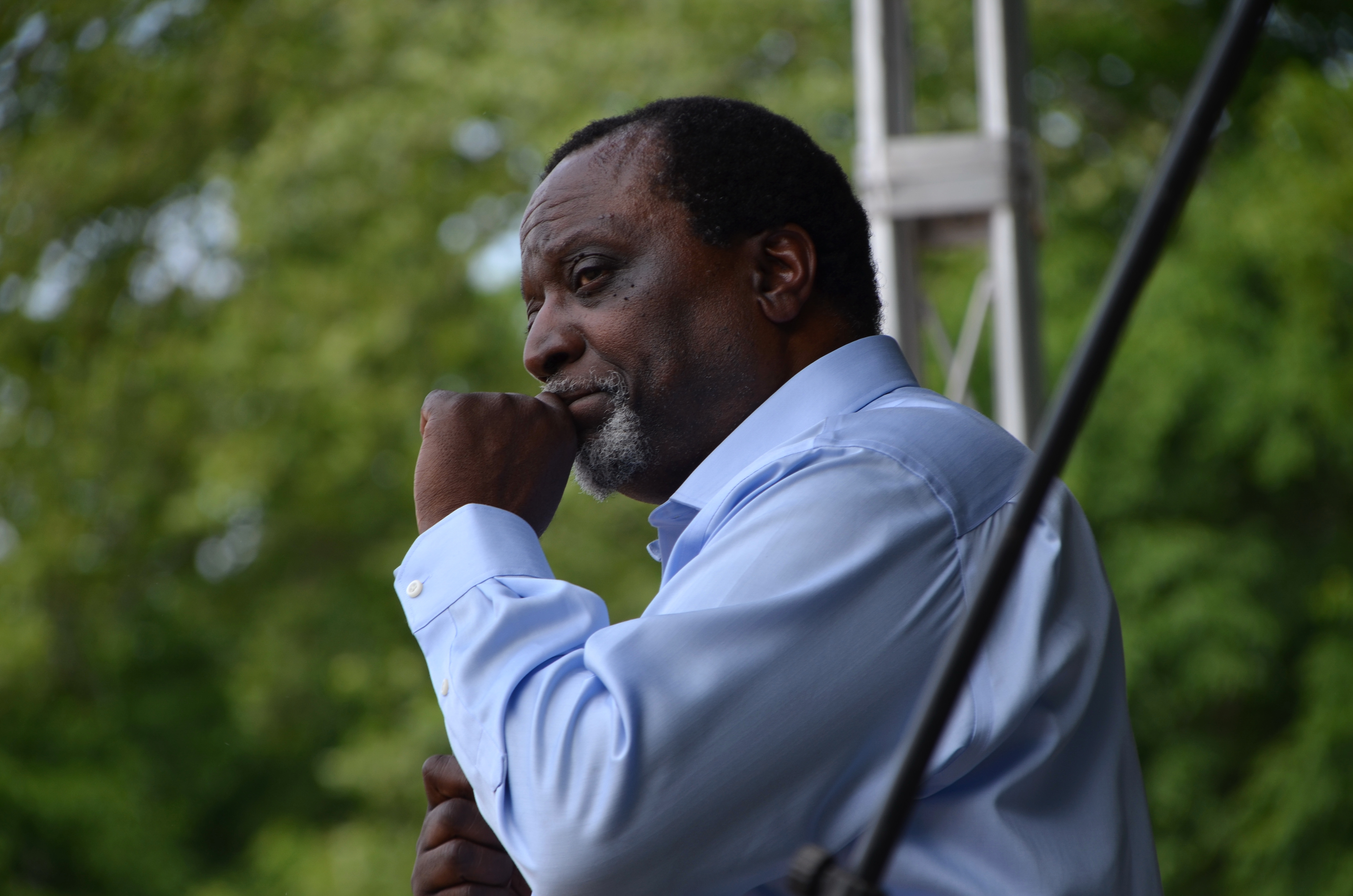 Rally for Common Sense, Patriot's Field of Dreams, Holts Summit, Missouri, May 19, 2012. Photo: Are Tågvold Flaten / amerikanskpolitikk.no.